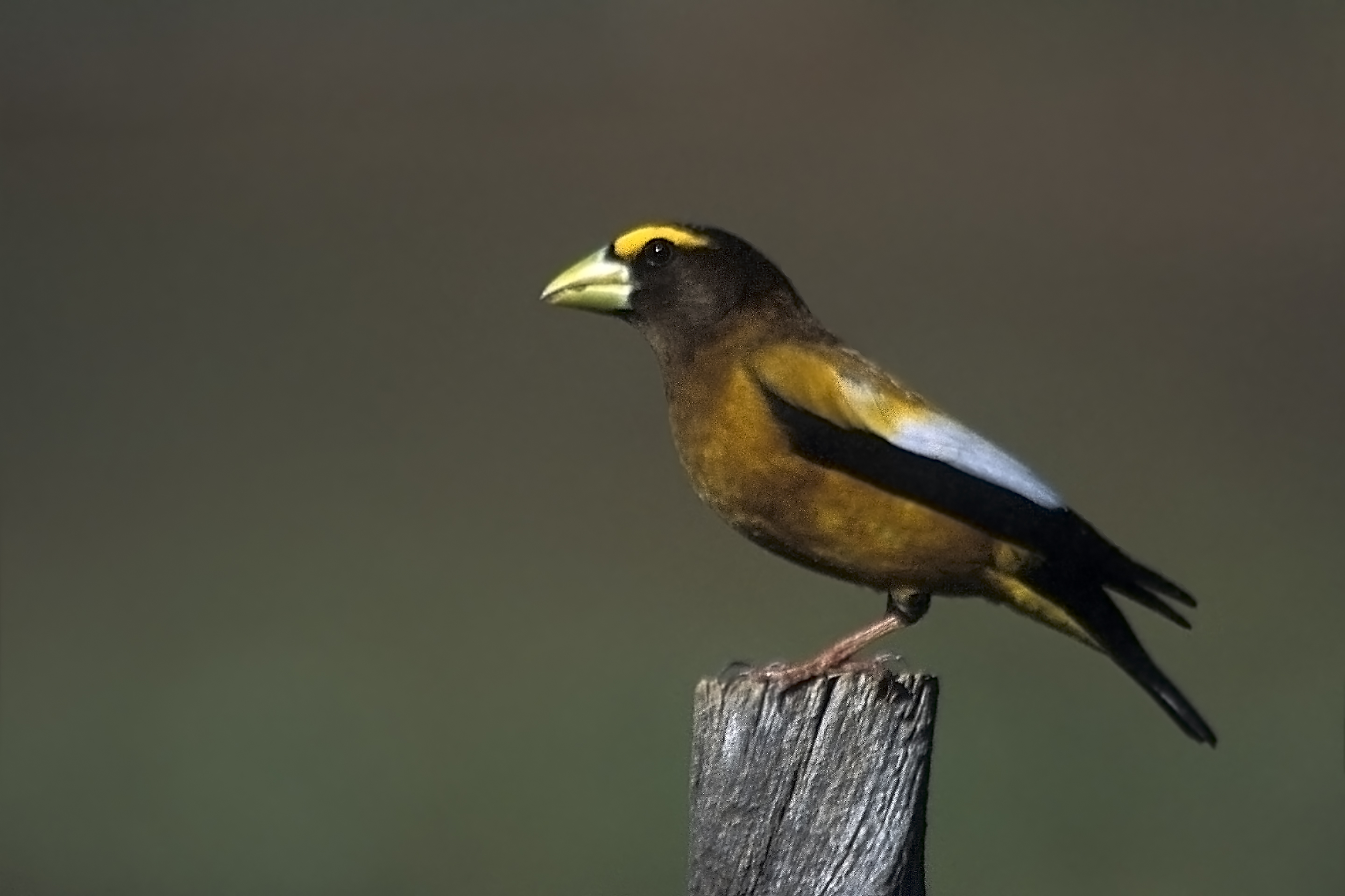 This Evening Grosbeak was on its farm at Truchas, New Mexico, so he held his position as I photographed him.